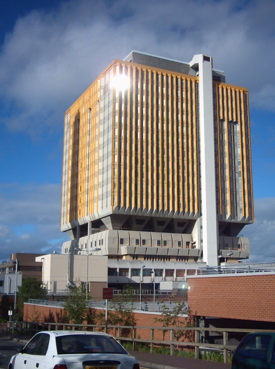 Belfast City Hospital, Lisburn Road, belfast, Northern Ireland. Opened in 1986.